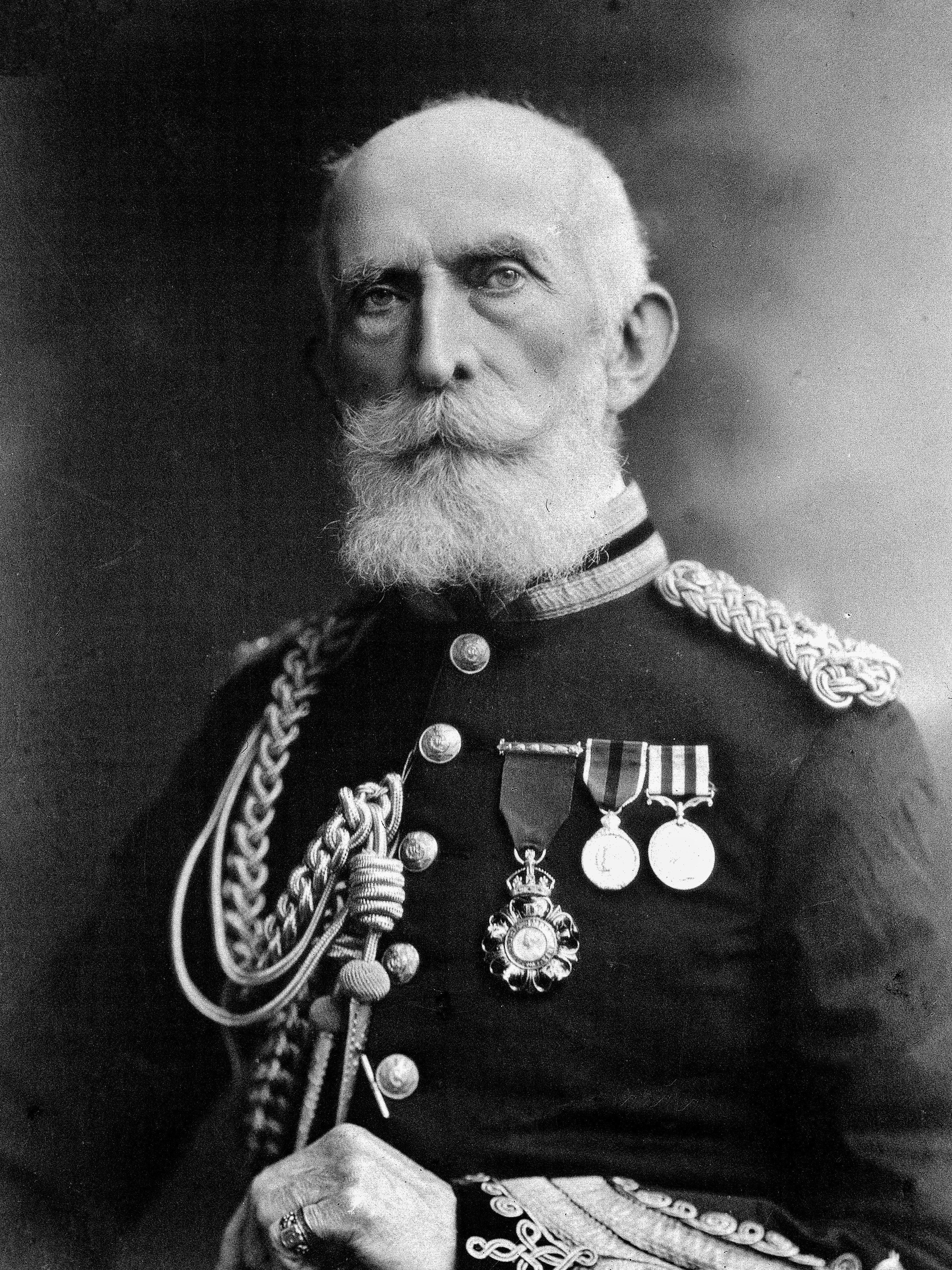 Portrait of Joseph Dejerine in military dress